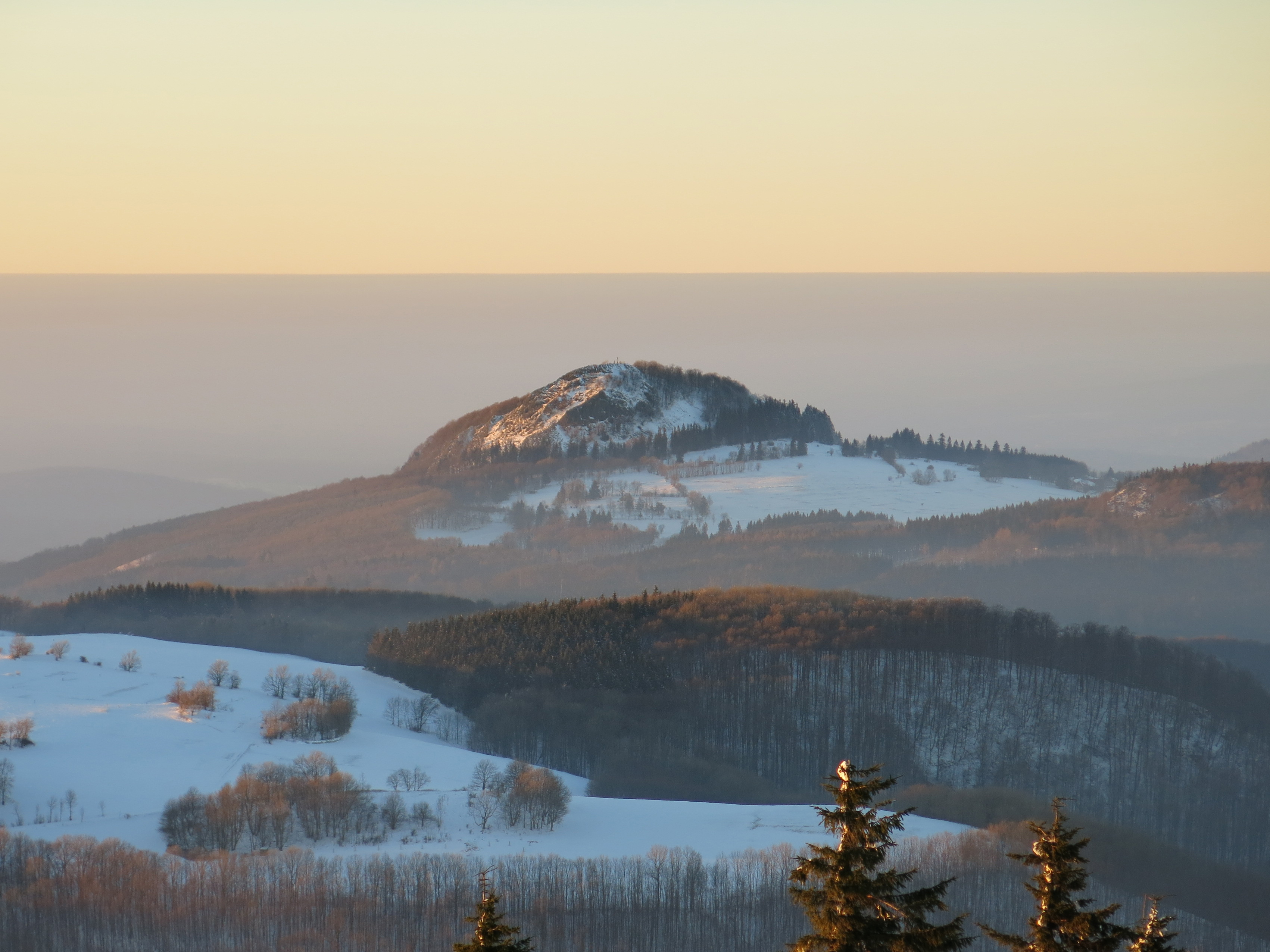 View from Wasserkuppe northward to Milseburg during meteorological inversion.